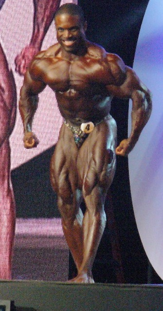 Image of professional bodybuilder posing